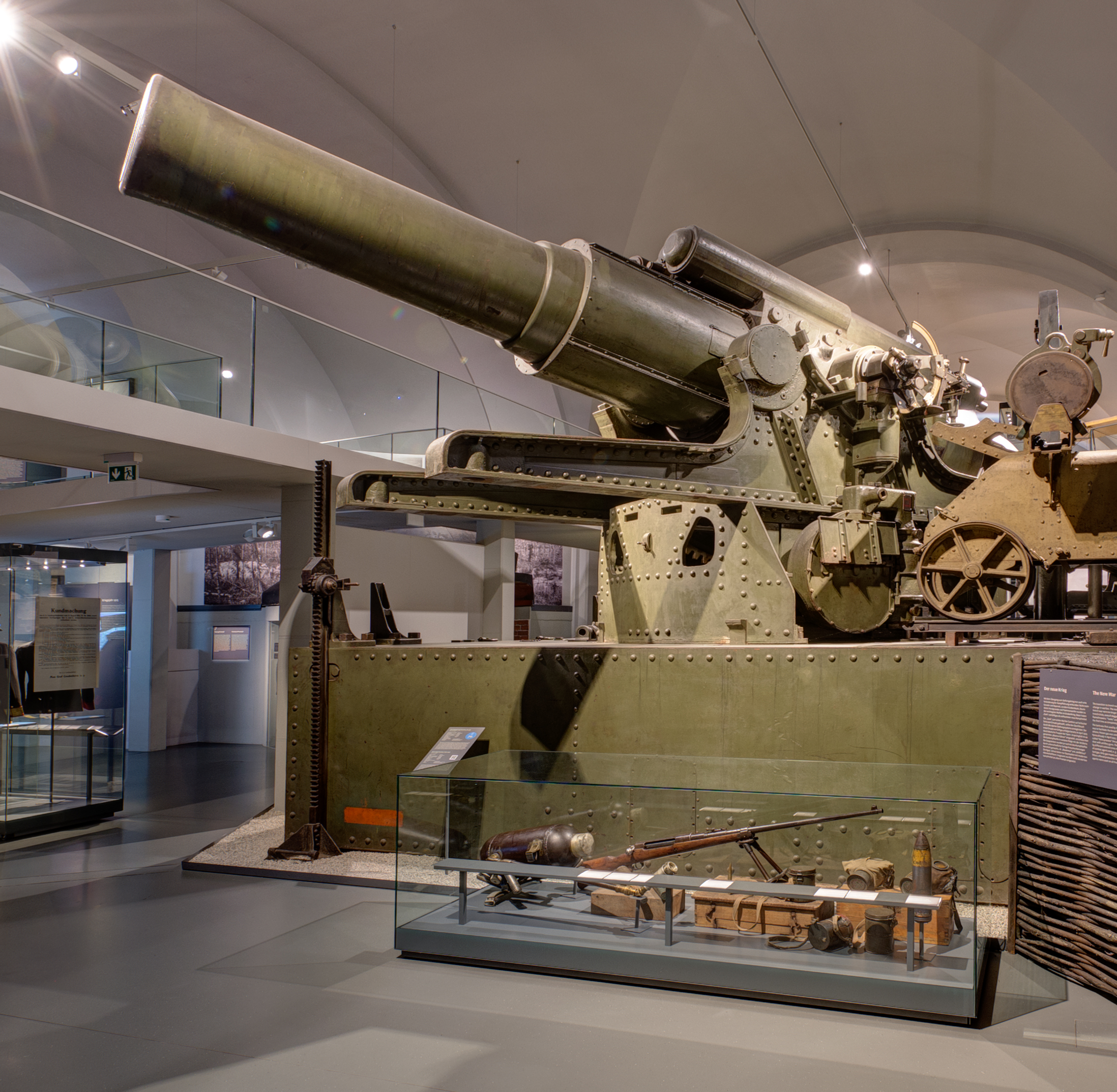 Media relating to the Škoda 38 cm Model 1916 siege howitzer. This image was uploaded as part of European Science Photo Competition 2015.